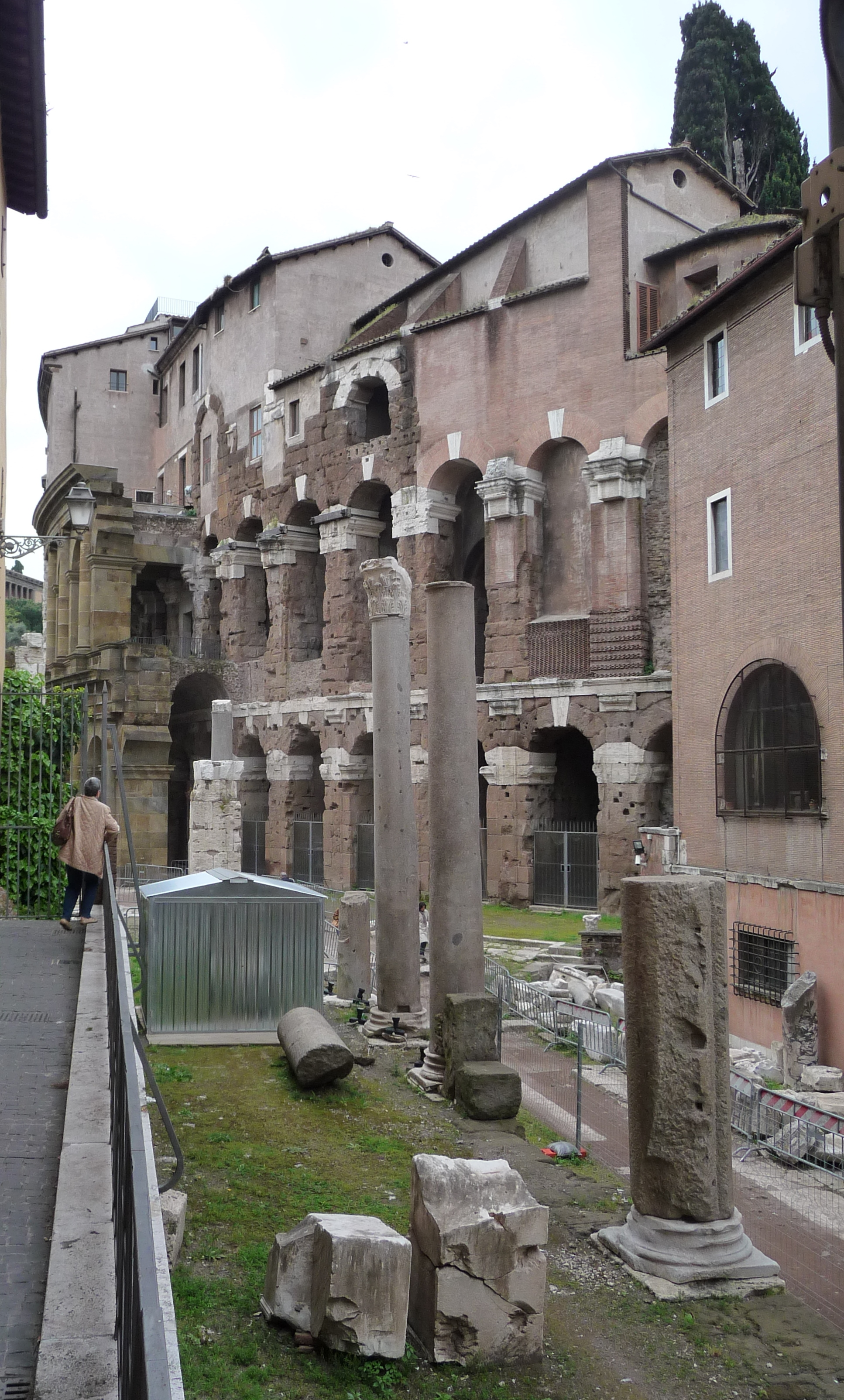 Ghetto in Rome